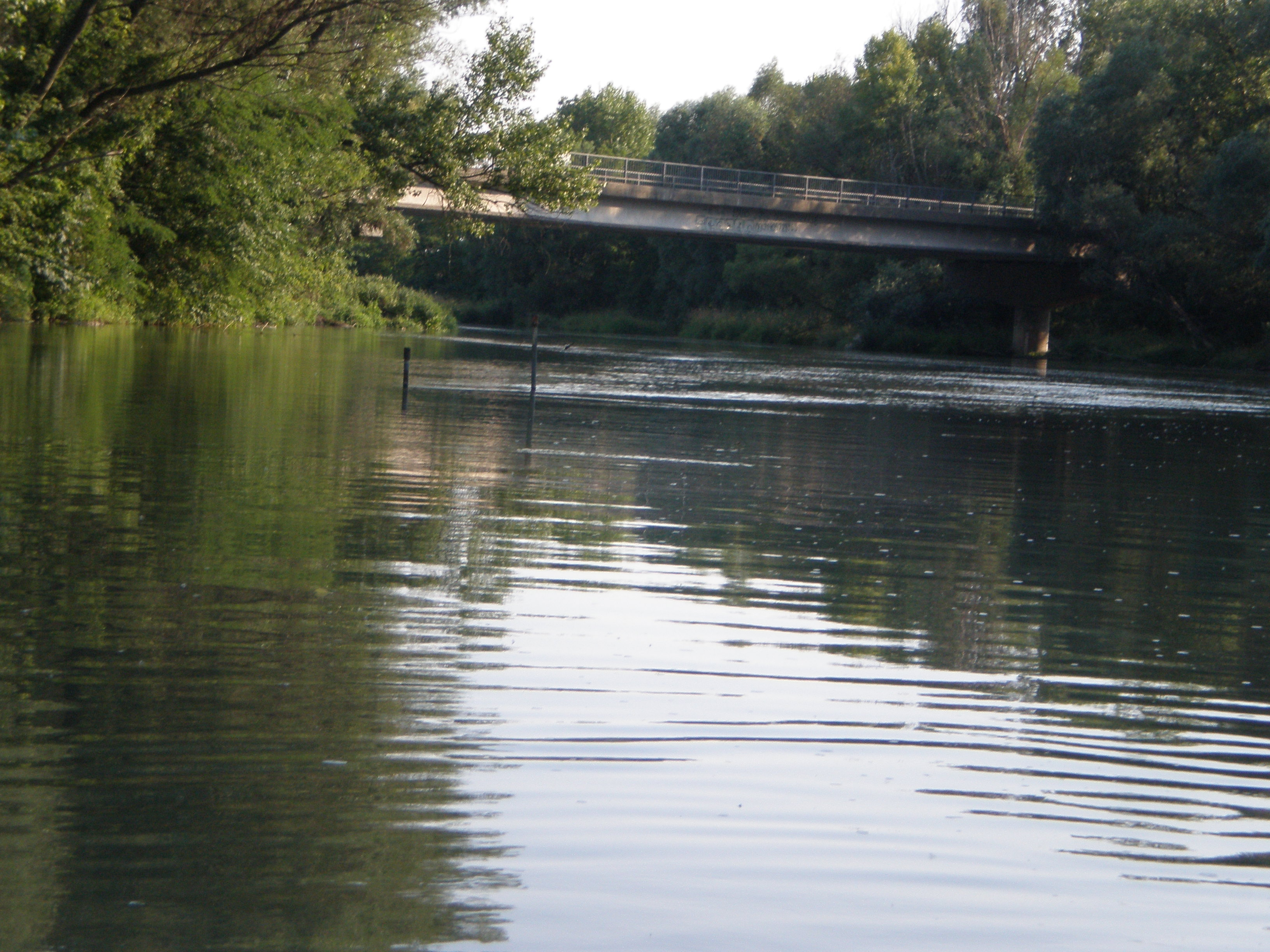 Bridge near Hurbanova Ves